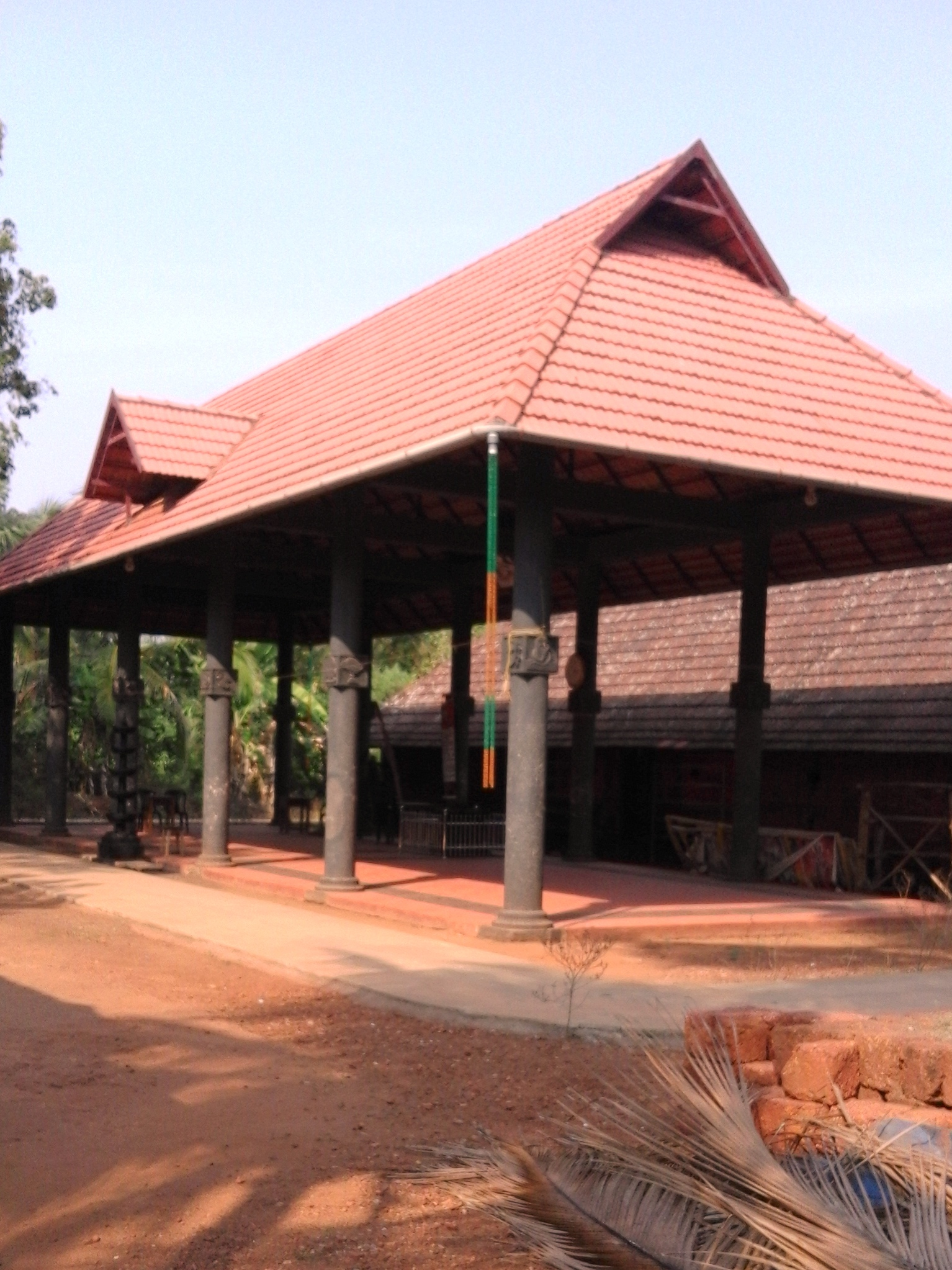 Mooniyur Temple, Thalappara, Tirurangadi, Malappuram District, Kerala province, India.